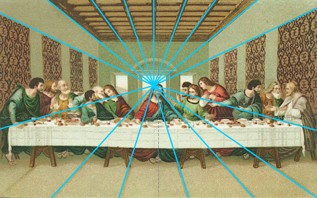 Using a geometric, linear scientific perspective that creates a sense of depth and draws the gaze to the figure in the center of the painting. The Last Supper, a painting by Leonardo da Vinci, which uses a geometric perspective that creates a sense of depth and draws the gaze to the figure in the center of the picture. The blue lines continue the parallel lines in the space that meet at the vanishing point.